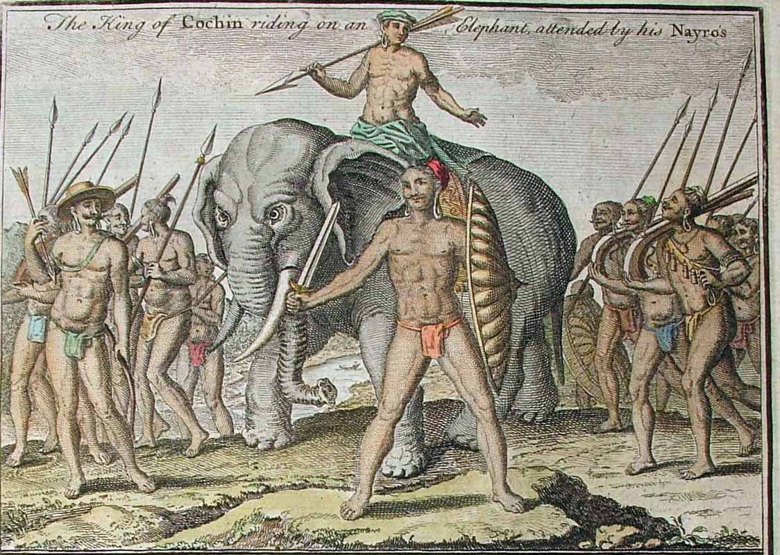 This 16th century portrait is taken from a historical account by the Dutch traveler and historian Jan Huyghen van Linschoten (1562-1611). In Western Europe, for many centuries, this portrait was one of the best known images of India. It shows the King of Cochin seated on his royal elephant attended by his Nair soldiers. Van Linschoten's images and accounts are still being used in many publications even after centuries. Hand coloring is done on the original copperplate engraving. Van Linschoten's account on Nairs whom he call as "Nayros" is as fearsome soldiers, serving the King of Cochin and armed at all times, many with "muskets as fine as any in Europe and which they know well how to use so that the Portugals have no advantage against them." Regarding these Nairs, Van Linschoten, in his commentary for this image notes that "Not any of them are married, nor may not marrie during their lives but they may freely lie with the Nayros daughters, or with any other that liketh them what women soever they bee even though they be a married women. When the Nayro hath a desire thereunto, hee entereth into a house where he thinketh good, and setteth his armes in the streete without the doore, and goeth in and despatcheth his businesse with the good wife or the daughter, the doore standing wide open, not fearing any man or husband..."]